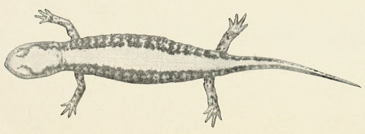 Salamandrella keyserlingii